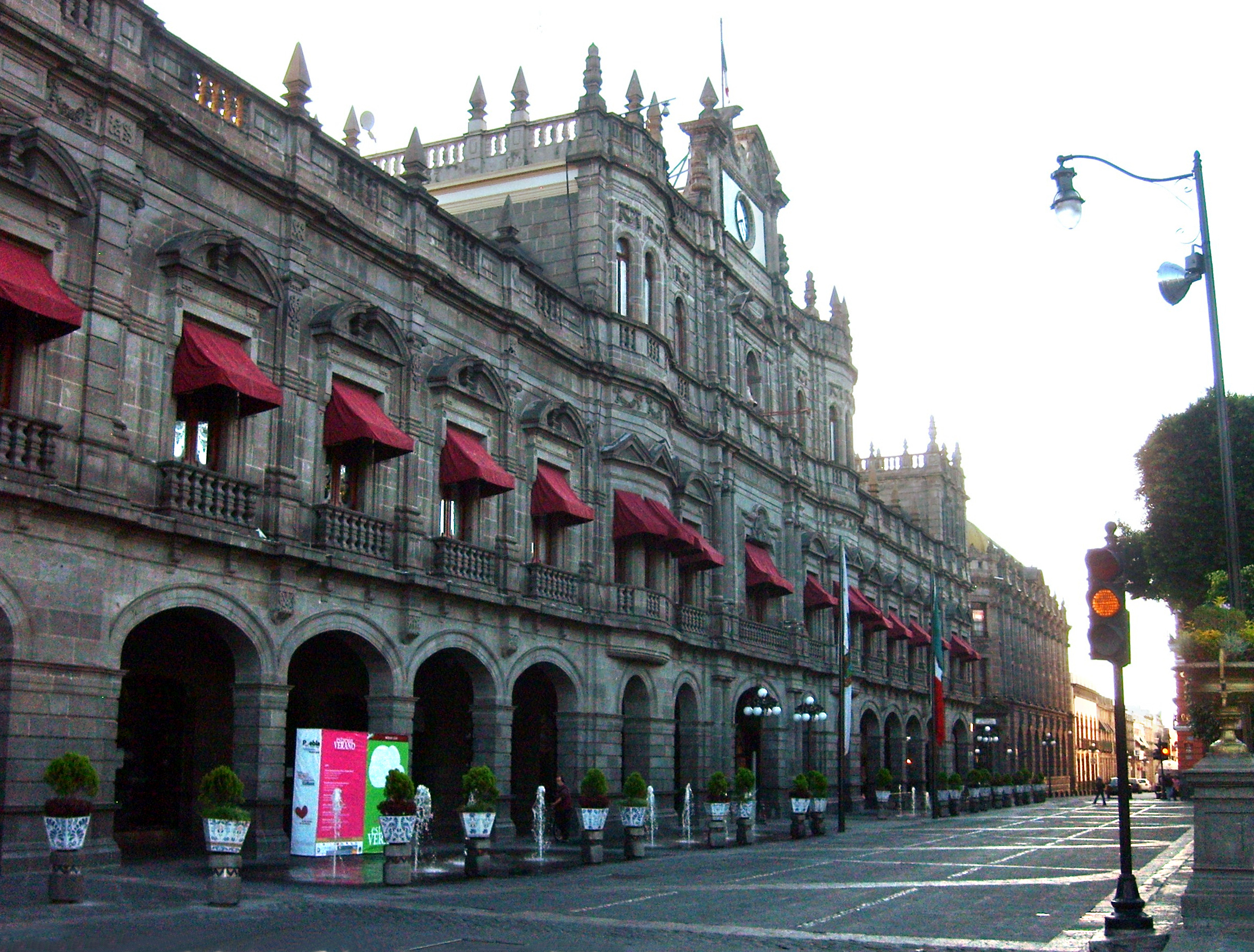 daybreak at Municipal Palace, Puebla, México.